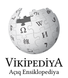 Wikipedia logo 2.0